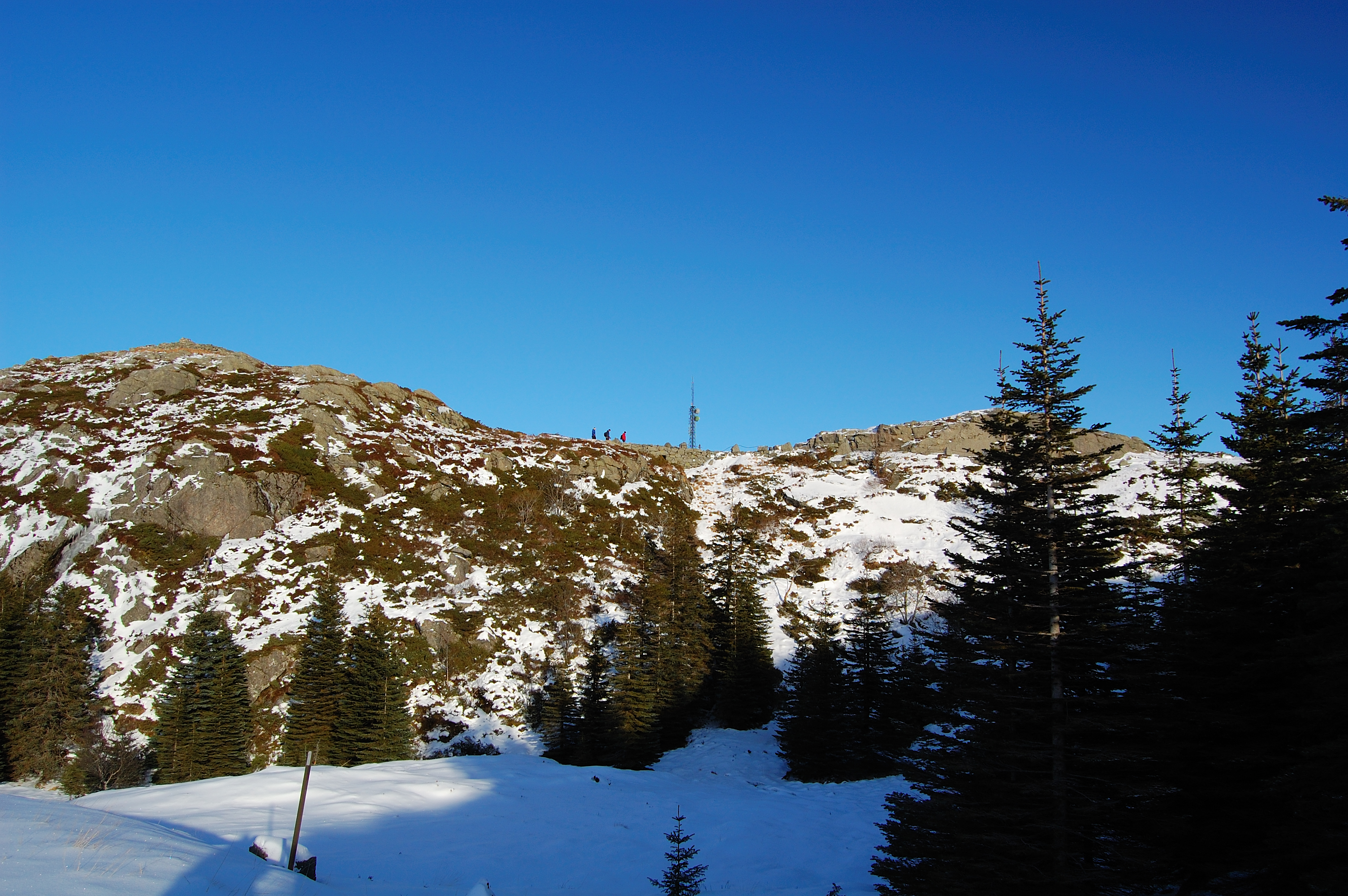 The Rundemanen mountain in Bergen, Norway.